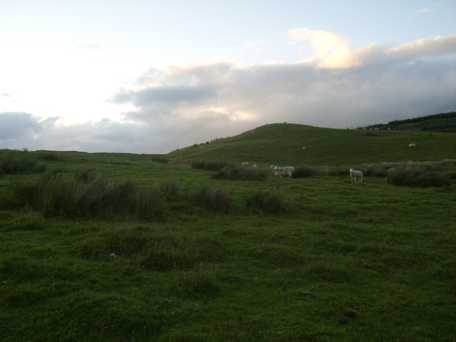 Maidens Paps Small hill by the Jaw Reservoir.